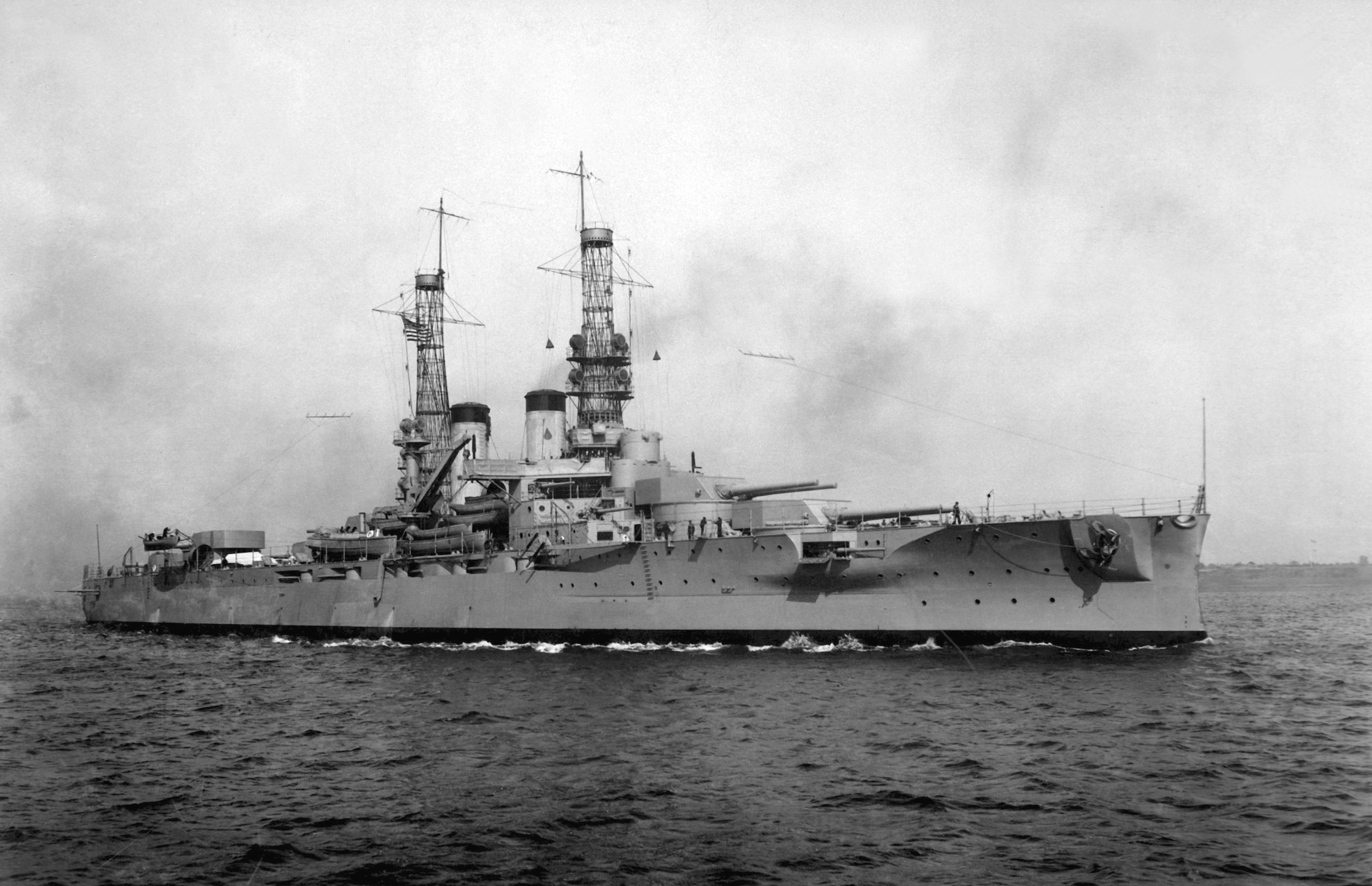 A picture of the USS Arkansas (BB-33) during World War I, ca. 1918. NARA FILE #: 165-WW-334A-7 WAR & CONFLICT BOOK #: 479